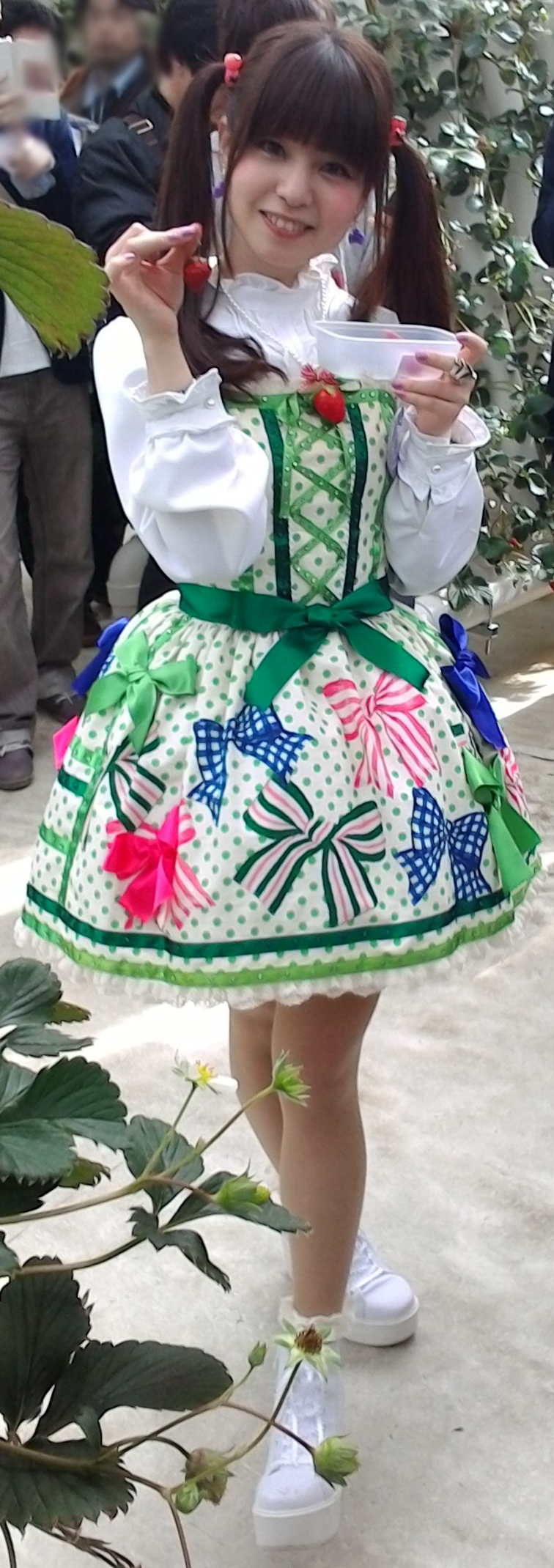 At strawberry picking in bus tour on Feb. 14, 2016